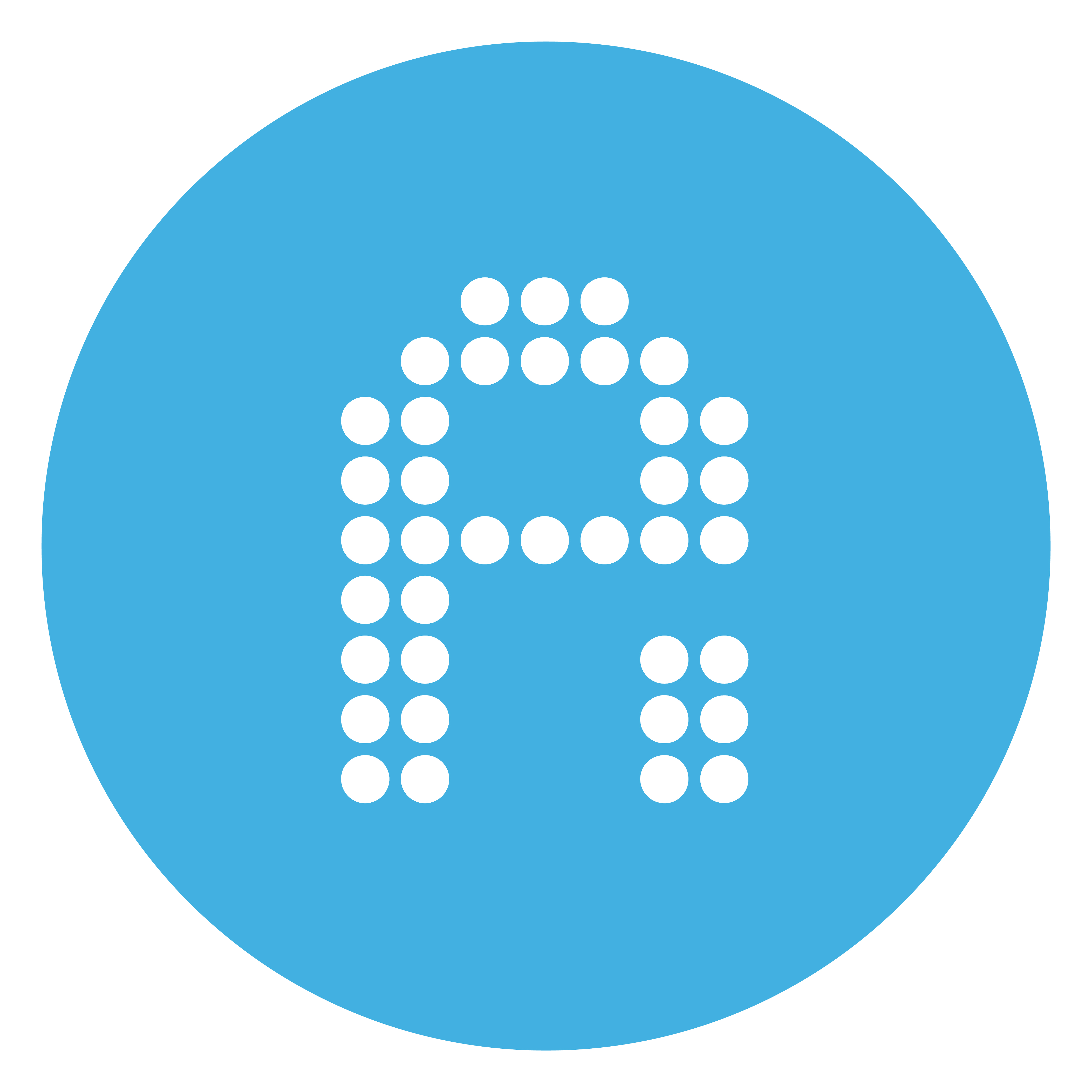 Portal A Logo